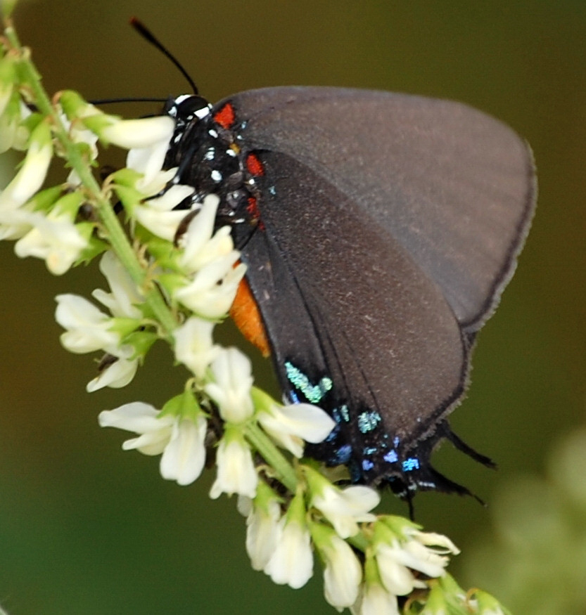 Probably a Great Purple Hairstreak (Atlides halesus), but not sure. Taken at the trail head for the hike to Cedro Peak, south of Tijeras, New Mexico (see this page for map and info. Taken with 55-200 mm f/4-5.6G ED AF-S DX Zoom-Nikkor Lens. Brightness +11 with Nikon Picture Project.